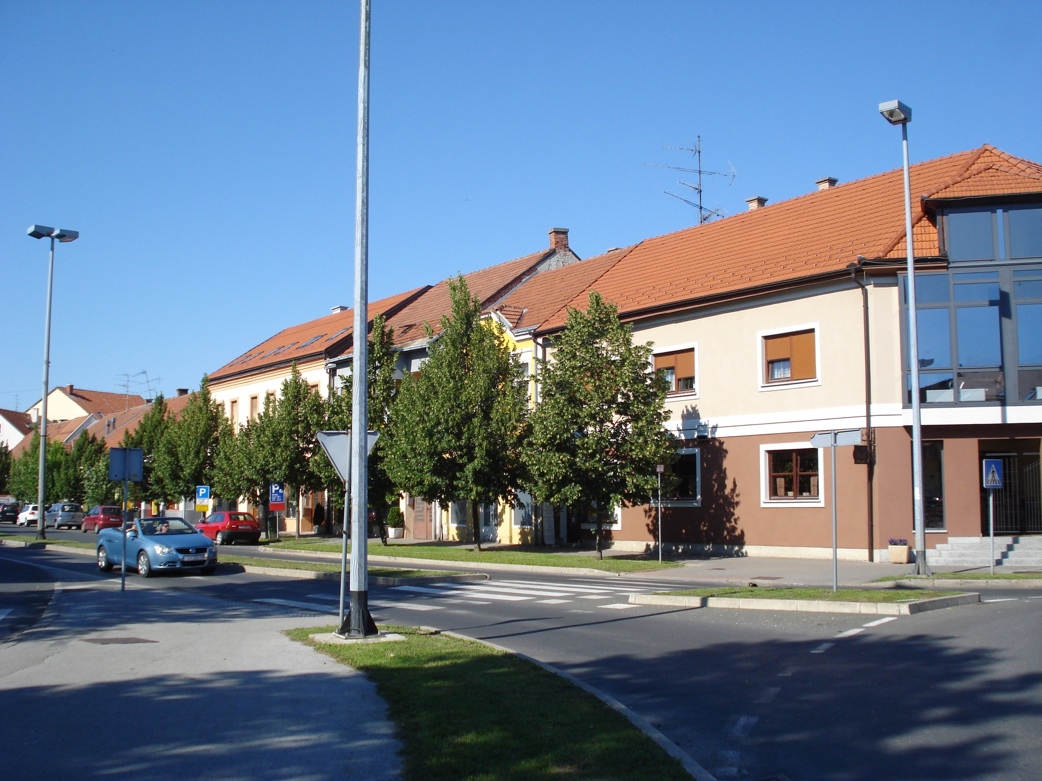 Trees on Revolutionary Eugen Kvaternik Square — the Town of Čakovec, Croatia.